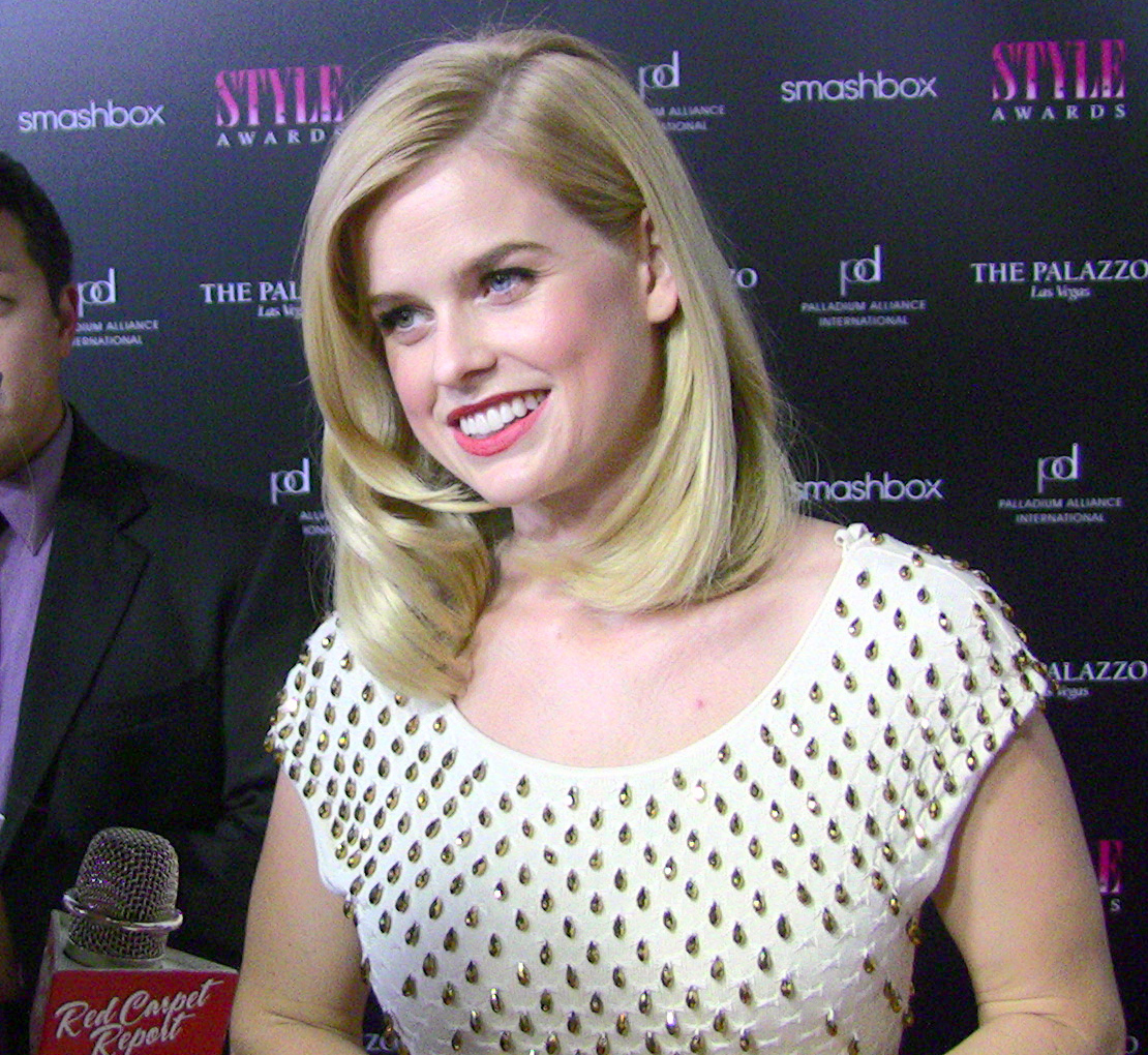 Alice Eve at the 2011 Hollywood Style Awards: Red Carpet Report.